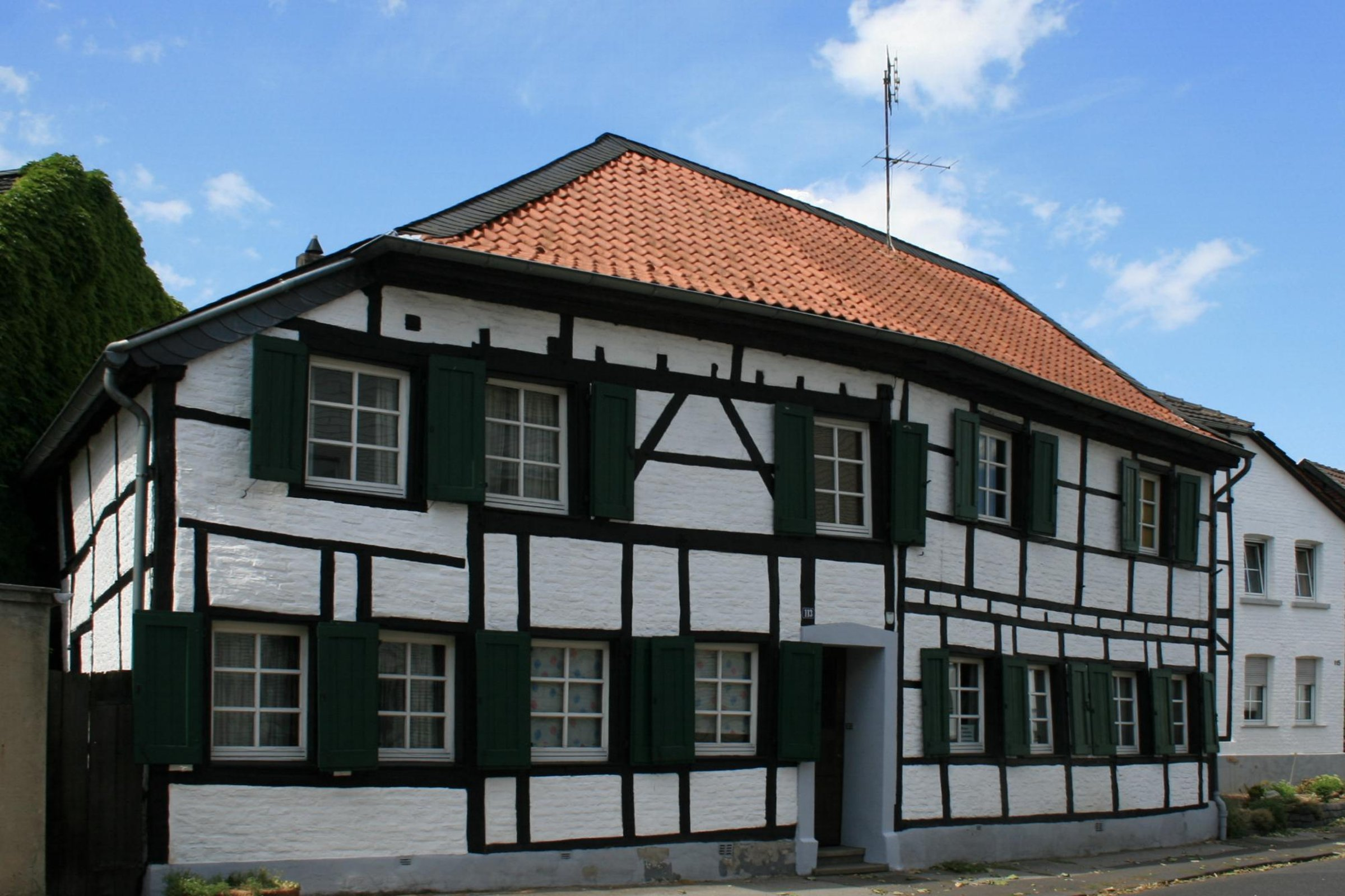 Cultural heritage monument No. G 038 in Mönchengladbach